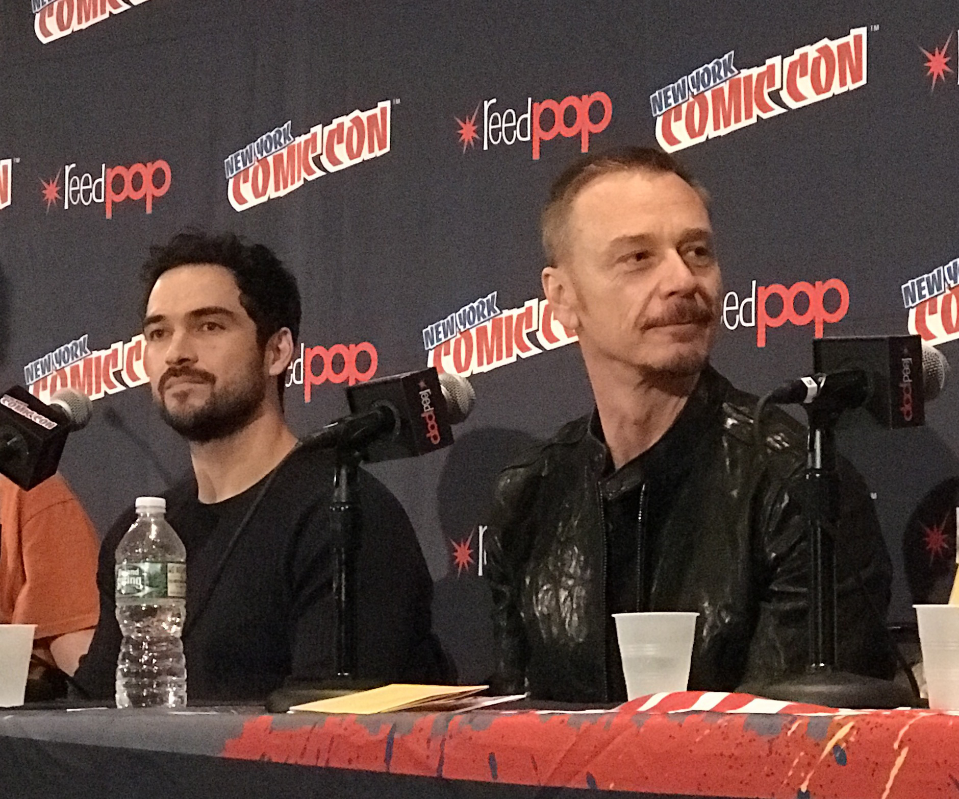 Actors Alfonso Herrera and Ben Daniels at a panel discussion on the 2016 - 2018 TV series The Exorcist on Sunday, October 8, 2017 at the Jacob K. Javits Convention Center in Manhattan, Day 4 of the 2017 New York Comic Con. This photo was created by Luigi Novi. It is not in the public domain, and use of this file outside of the licensing terms is a copyright violation.